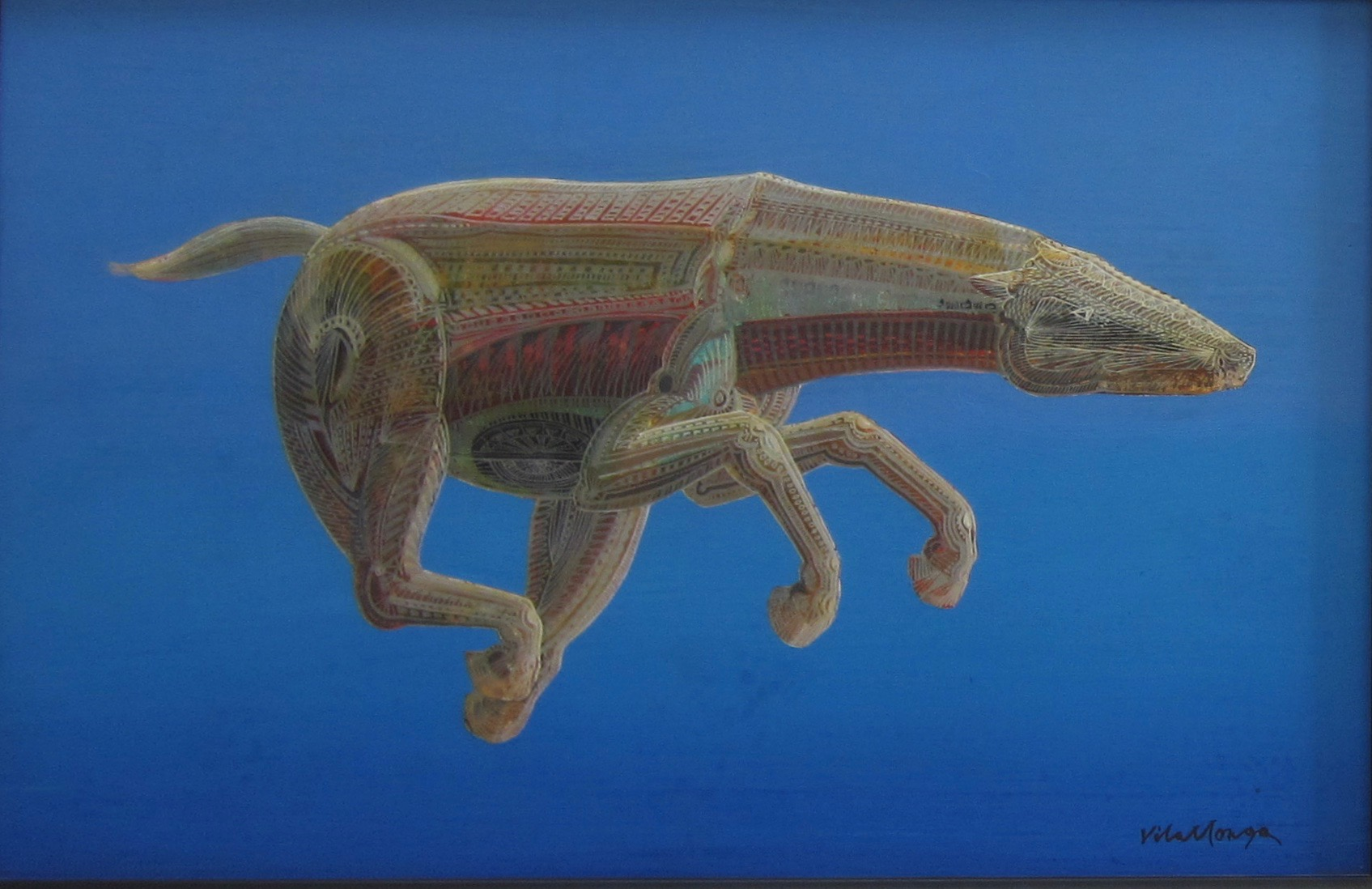 Egg tempera painting by Jesús Vilallonga. Photograph by Katherine Slusher